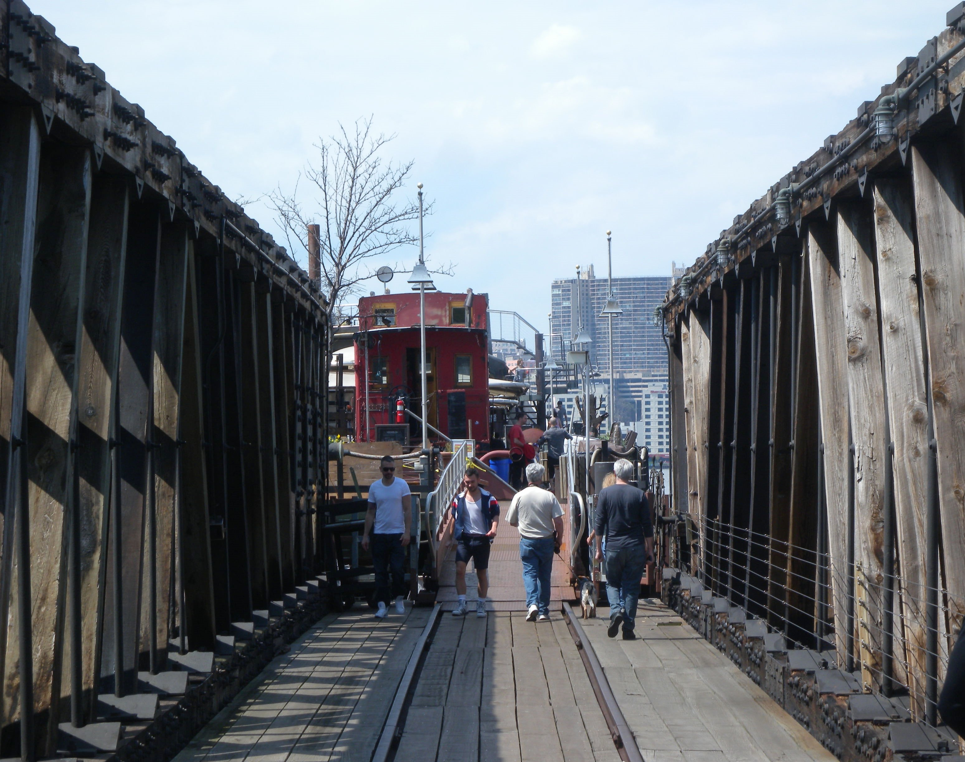 Looking west at caboose on rail barge docked at Pier 66a on a partly sunny midday.